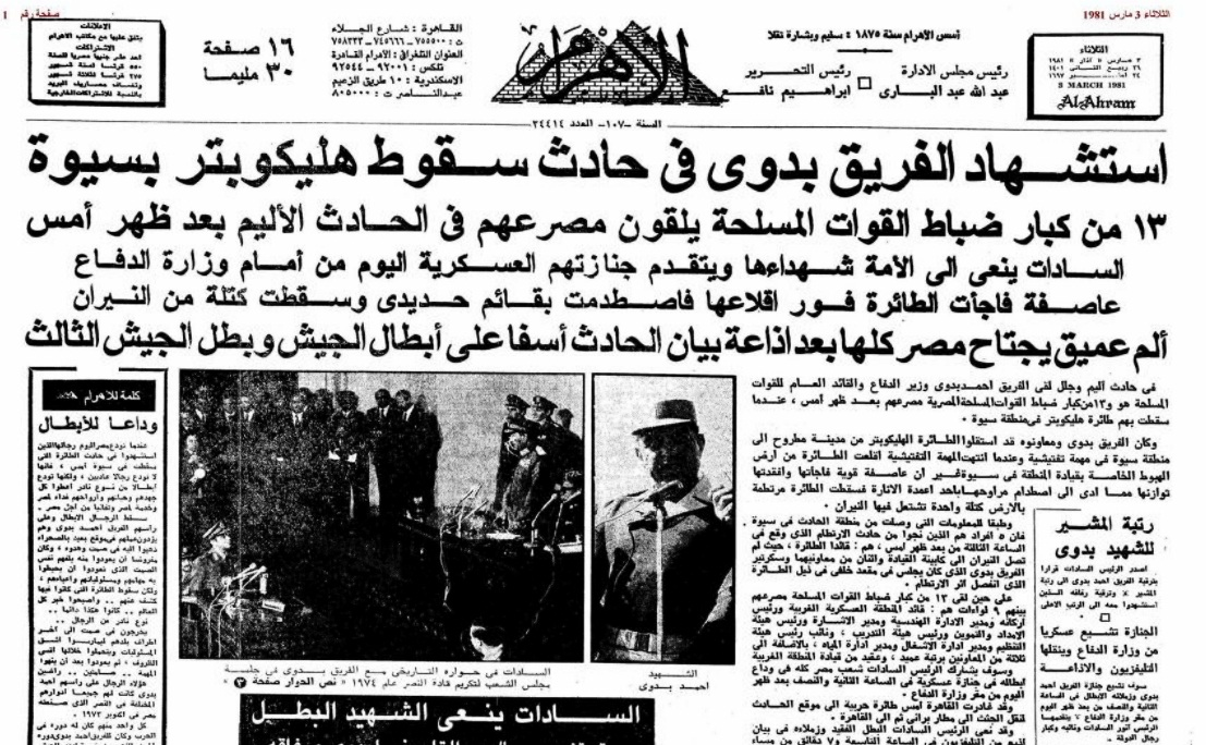 Ahmed Badwy death